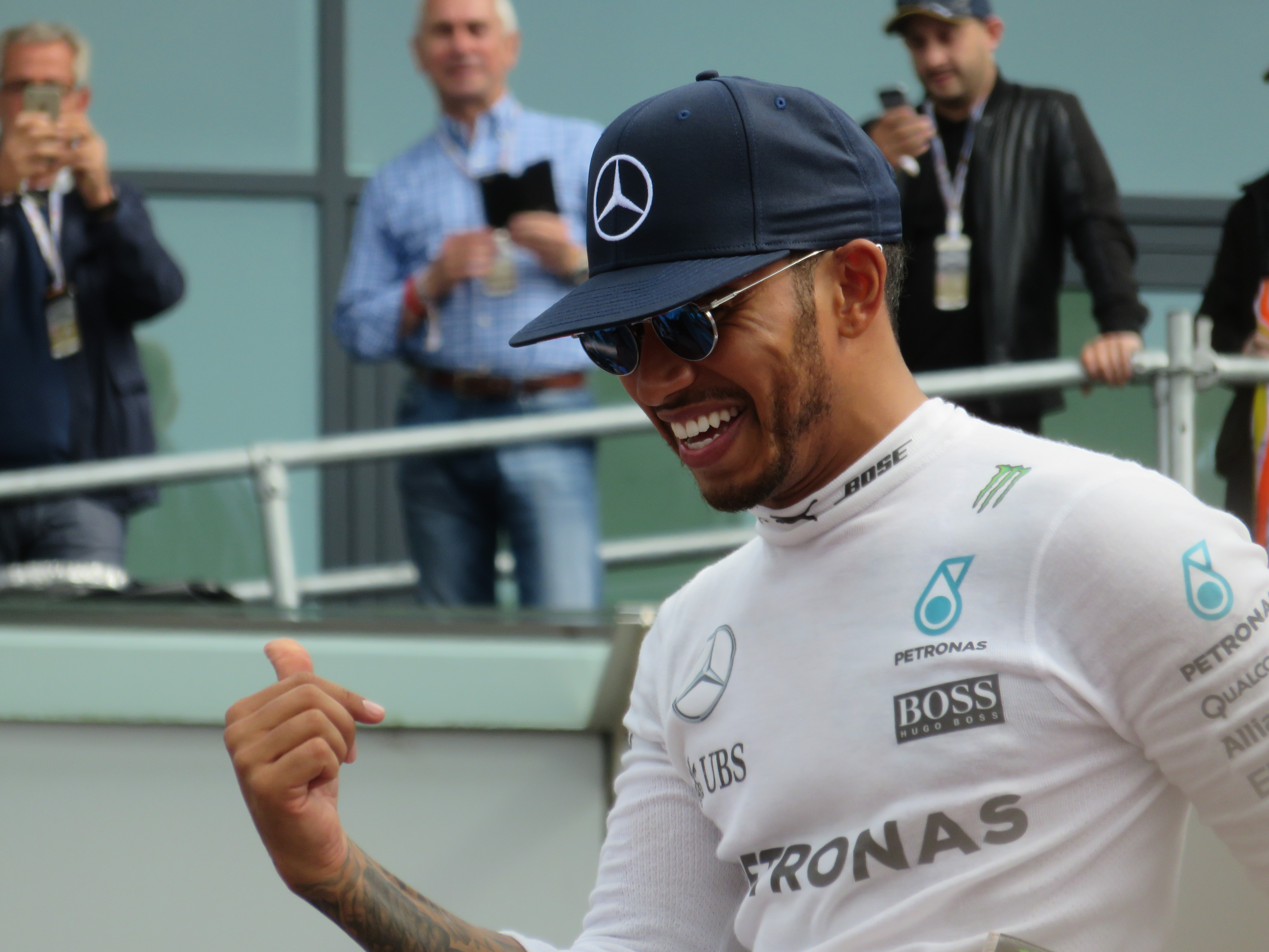 British GP 2016, Silverstone